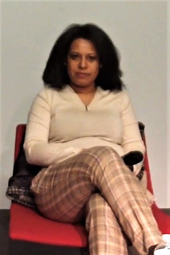 Everyone connected and afterwards : How to reclaim the Internet ? Everyone connected and afterwards? How to reclaim the Internet with Salwa Toko, president of CNNum, Thursday, 21 March.